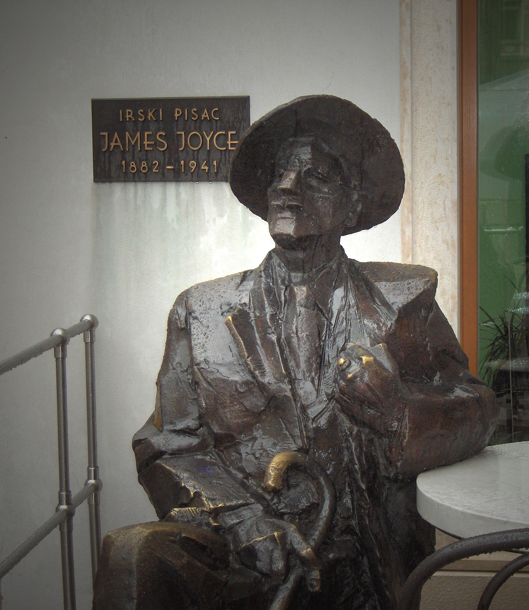 Bronze statue of James Joyce, Pula, Croatia